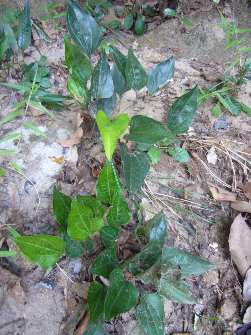 Trichopus zeylanicus at Nilagala, Bibile, Sri Lanka